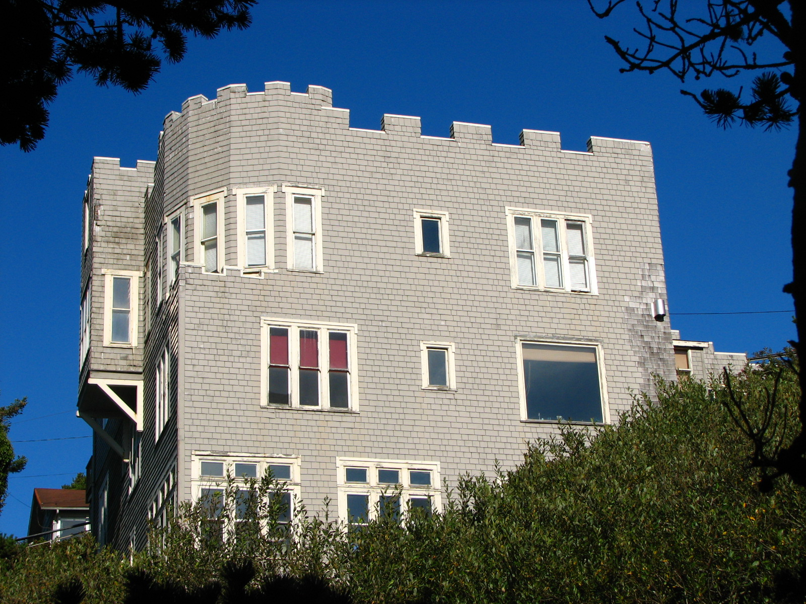 The historic Charles and Theresa Roper House (built 1913, also known as Hilan Castle), located at 620 Southwest Alder Street in Newport, Oregon, United States, is listed on the US National Register of Historic Places.